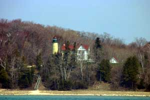 Charles W. Bash, May 7, 2005 (taken from a GLLKA cruise)